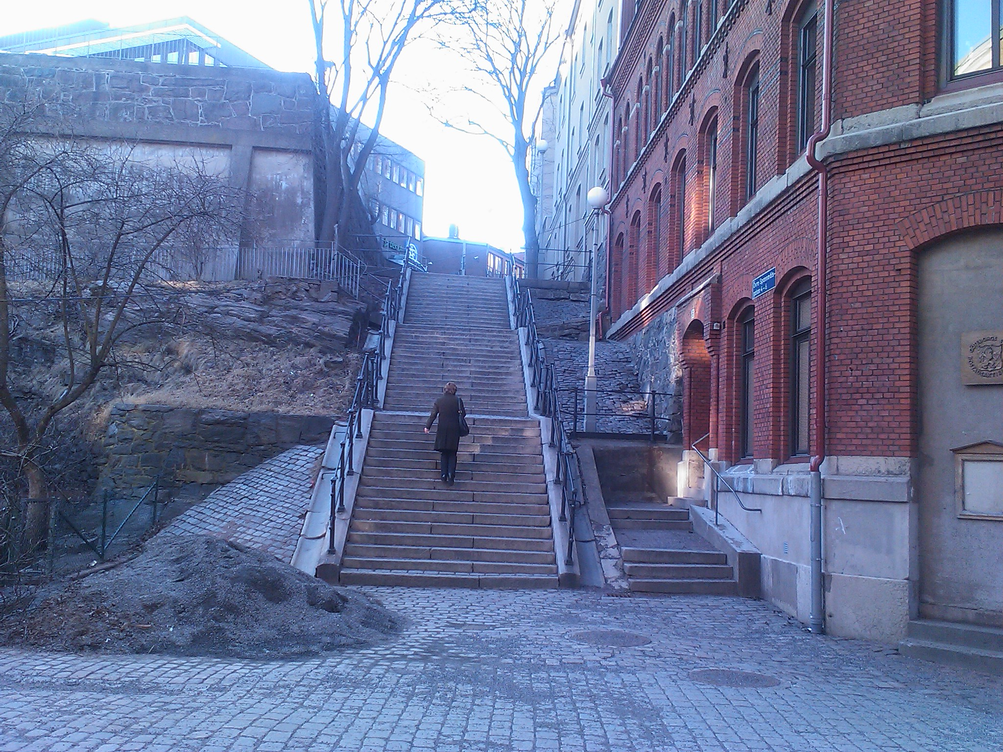 Övre Spannmålsgatan, Gothenburg, Sweden